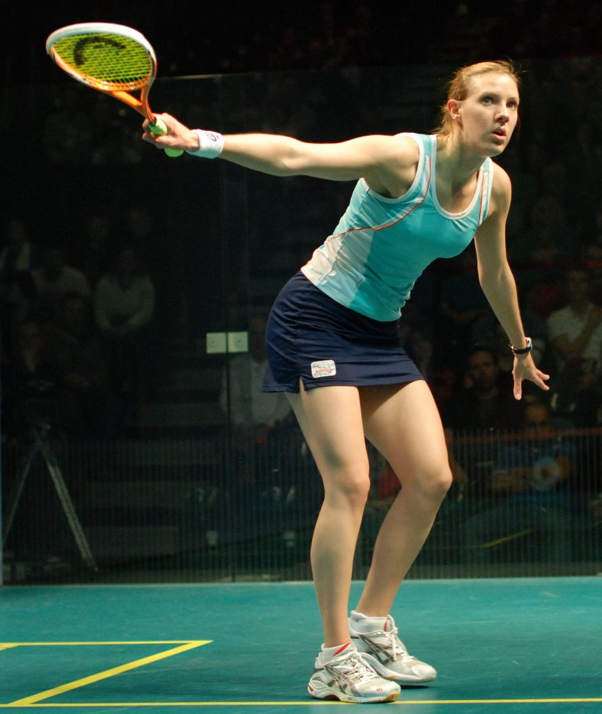 Laura Massaro during the 2010 British National Championship representing Lancashire.